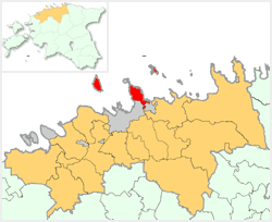 Location map of Viimsi Commune, Estonia. This image was created by Senzeichi.